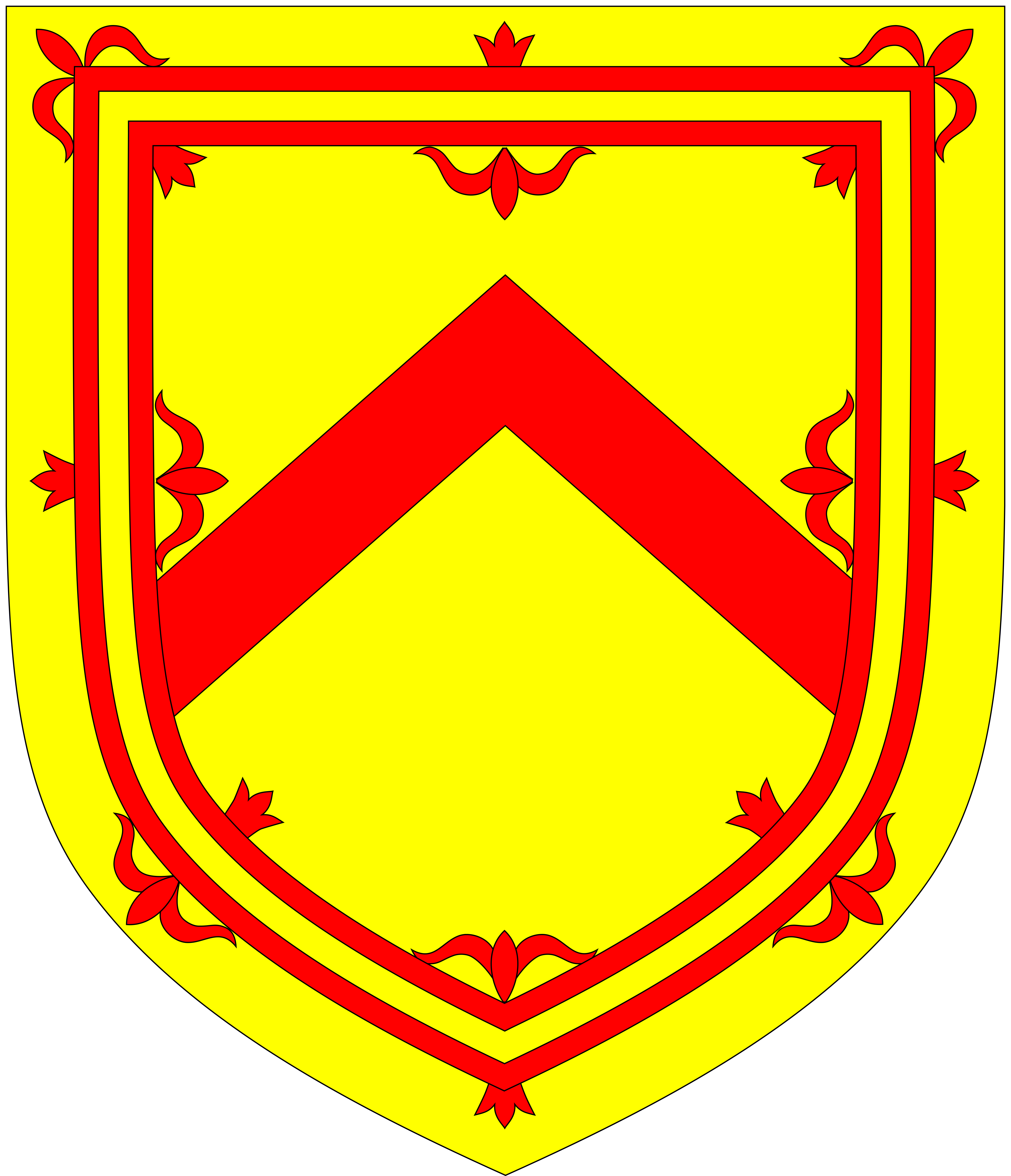 Arms of the Scottish Fleming family (Earl of Wigtown, cr 1341 & 1606, the earls of the second creation bore the subsidiary titles of Lord Fleming and Cumbernauld (1606) and of Lord Fleming (1451, Peerage of Scotland, extinct 1747, all in the Peerage of Scotland). As depicted, possibly incorrectly, on a 16th century painting inscribed "Lorde Fleminge" see below and . Blazon as depicted here, possibly incorrectly: Or, a chevron within a double tressure flory counter-flory gules. (Source: Burke's General Armory, where the arms are given with field gules and charges argent, see .[1]). The double tressure flory counter-flory is a distinct feature of Scottish heraldry, and thus rules out these arms as relating to the Irish Flemings, Barons Slane, descended from Fleming of Bratton Fleming in Devon. 16th c. painting source: [2] University of Manchester, Rylands Collection, Image Number: JRL060418cb; Image Title: Lorde Fleminge coat of arms; Parent Work Title: Scottish Armorial; Date Created: 16th century; Page/Sheet: 21r Page; Reference Number: English MS 4; Previous Accession Number:Crawford 11.